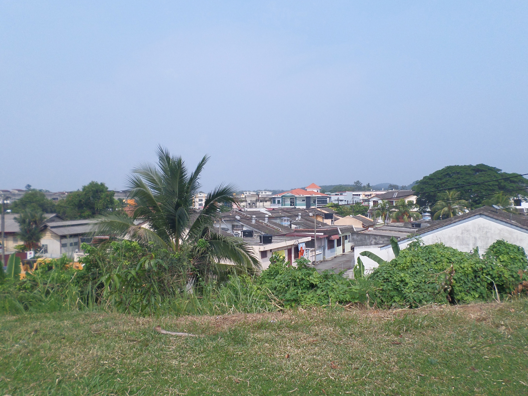 Lukut, Port Dickson, Negeri Sembilan, MalaysiaBahasa Melayu: Lukut, Port Dickson, Negeri Sembilan, Malaysia